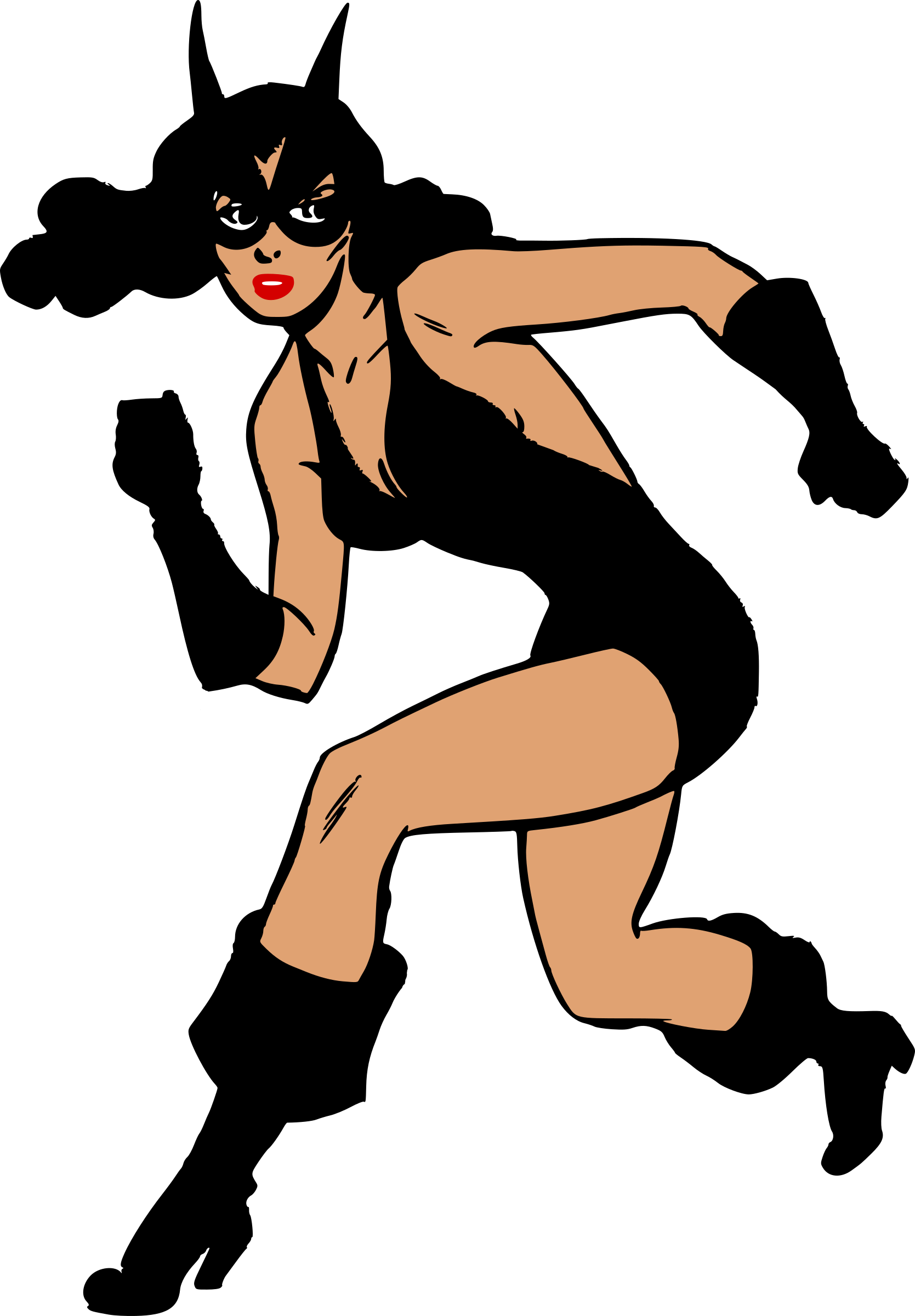 Black Cat (Harvey Comics) traced from